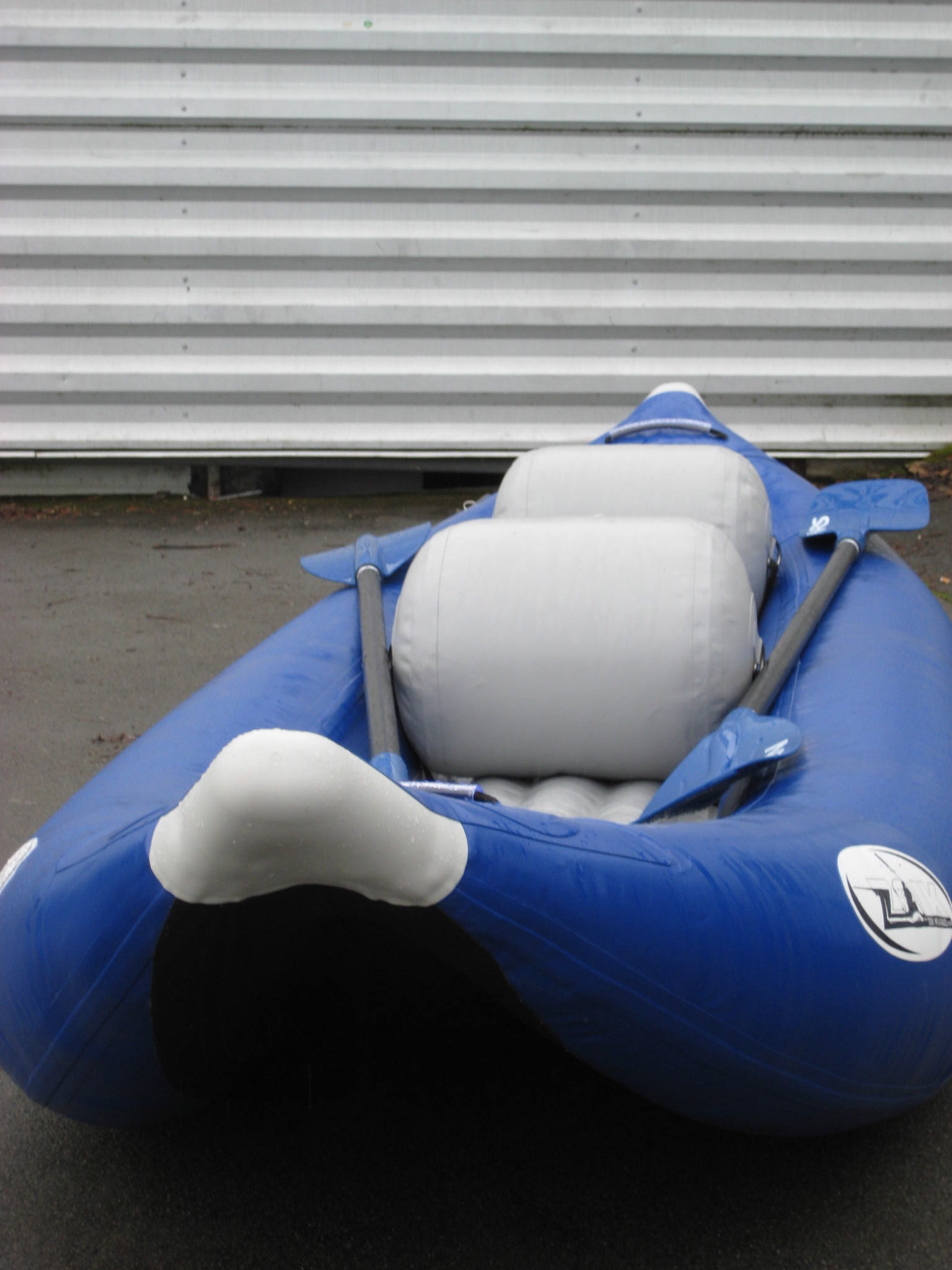 An inflatable kayak by Zoik